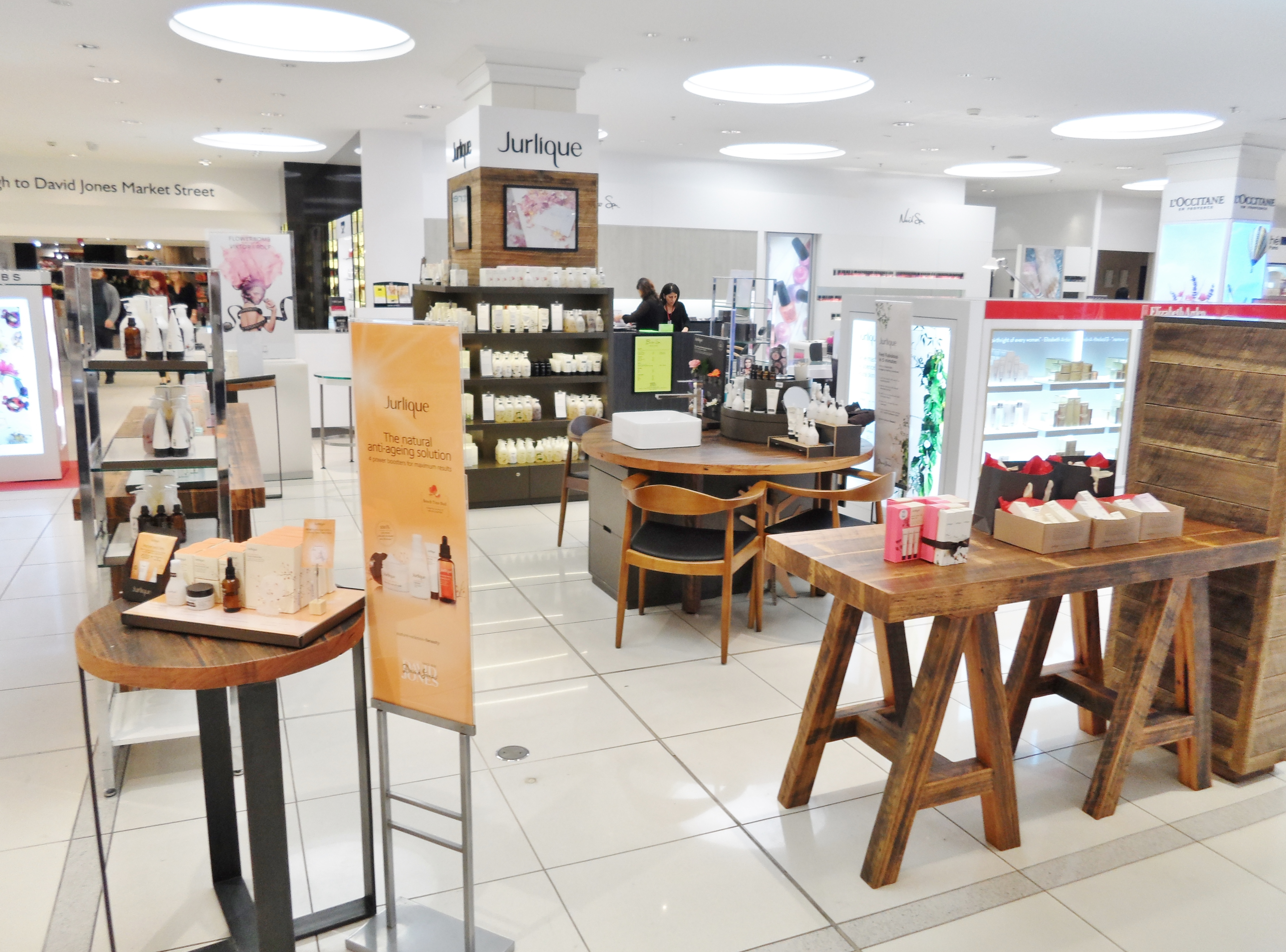 Counter for Australian cosmetics brand Jurlique at Elizabeth Street, Sydney branch of Australian department store David Jones in 2013.